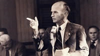 Fred Paterson - Queensland Politician